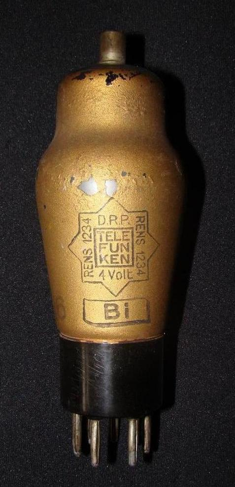 Hexode selectode RENS1234.